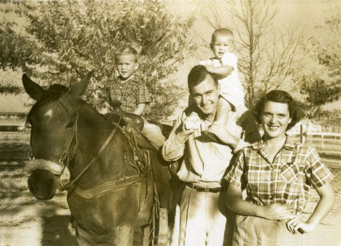 George and Barbara Bush with their children, George and Robin, have their photographs taken at the rodeo grounds in Midland, TX, October 1950.